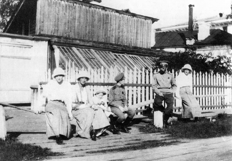 The former tsar Nicholas II and his children sit in front of a fence and a greenhouse during their captivity in Tobolsk. (l-r) Tatiana, Olga, a little boy of a servant (probably "Ilya", "Kolya" or "Tolya"), Alexei, Nicholas II and Anastasia.